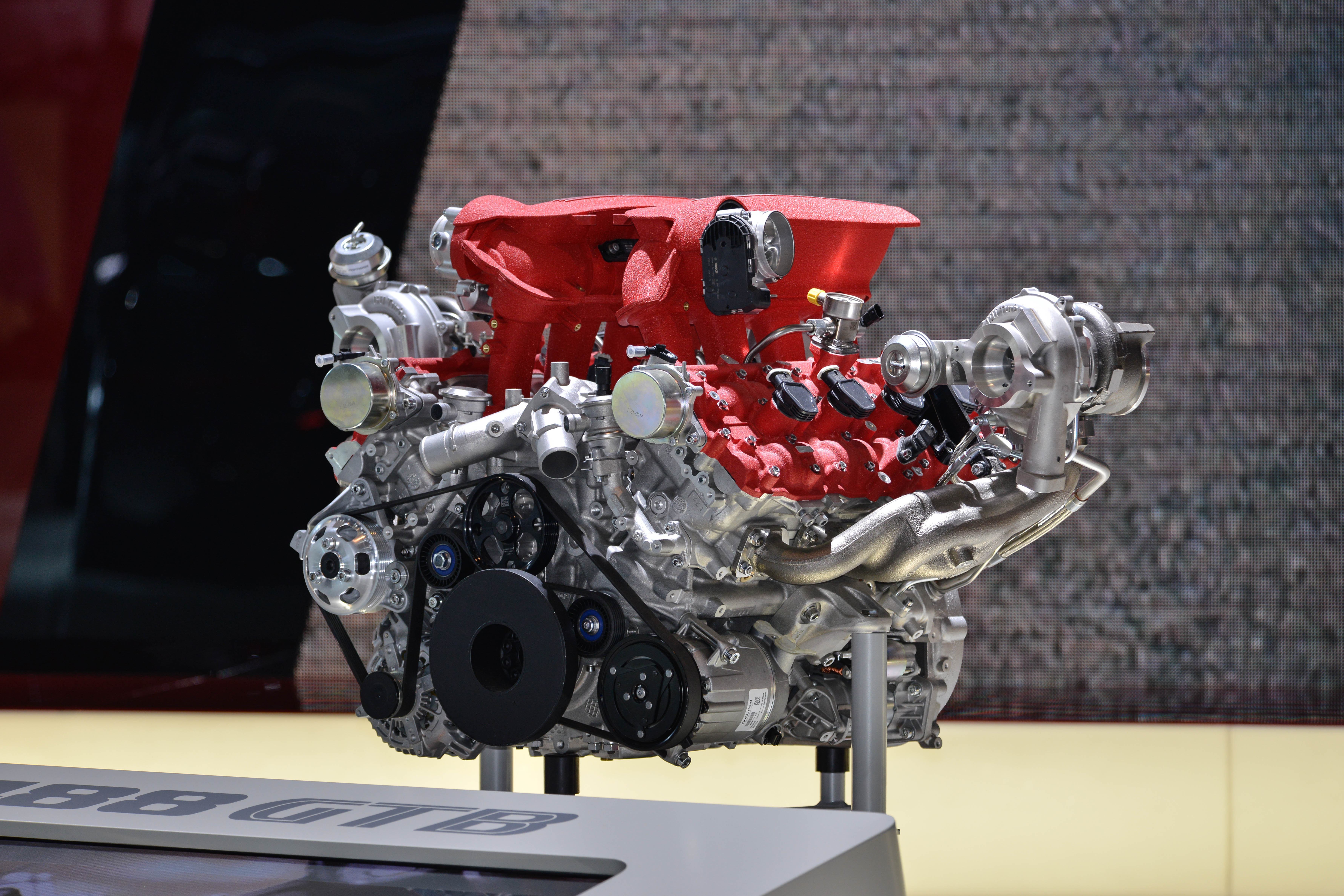 Ferrari 488 GTB engine. Ferrari 488GTB Engine. 3.9L twin turbo V8, 660 bhp at 8000 rpm, 759 N·m at 3000 rpm